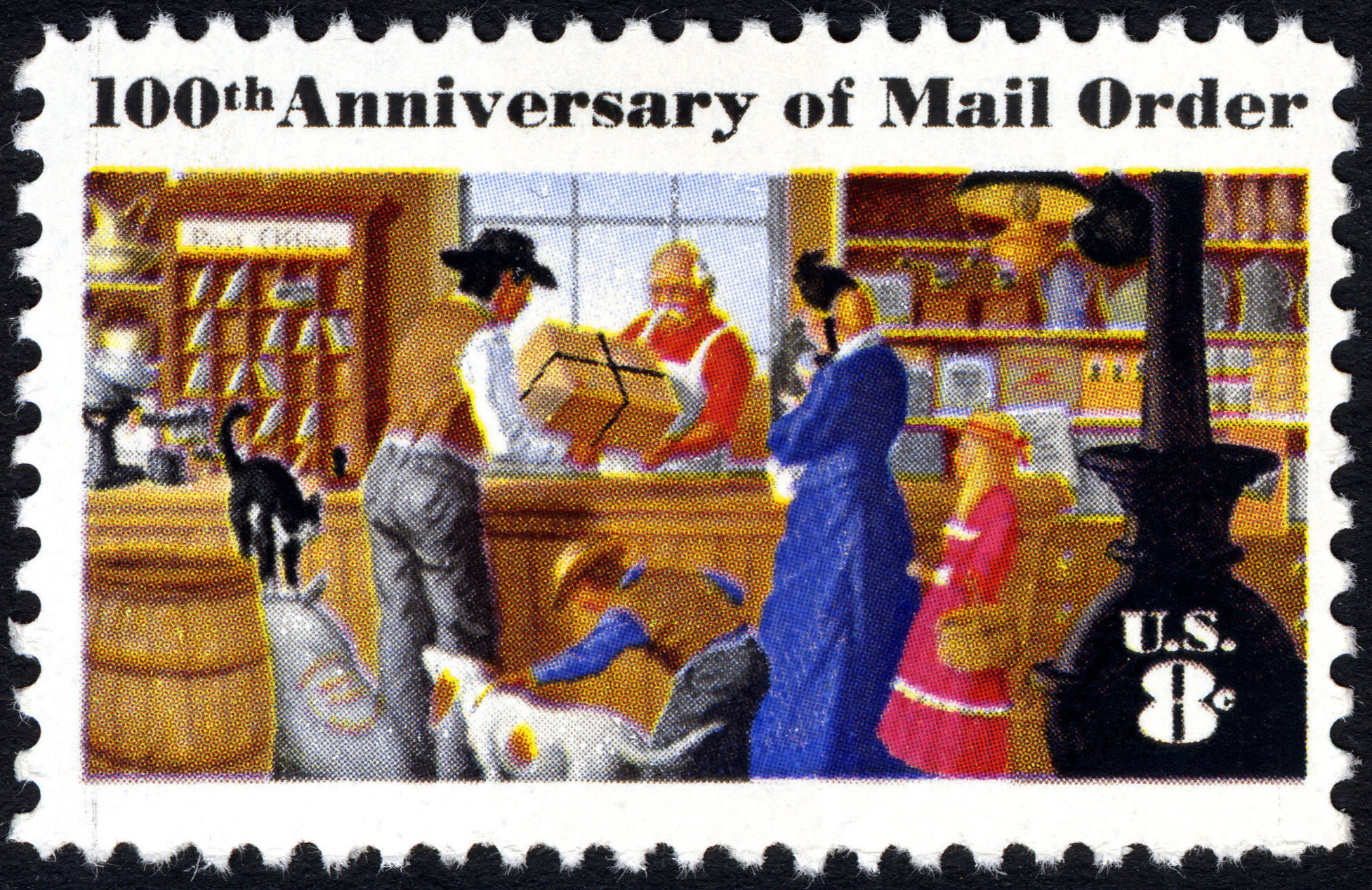 Mail Order Business Issue - 100th Anniversary of Mail Order - 8-cent 1972 U.S. stamp.